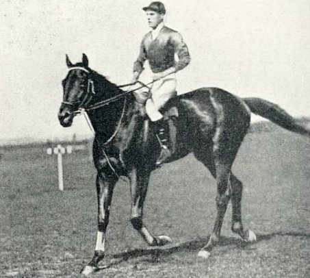 1901 St. Leger Stakes winner, Doricles, going to the post for the Newmarket Stakes.